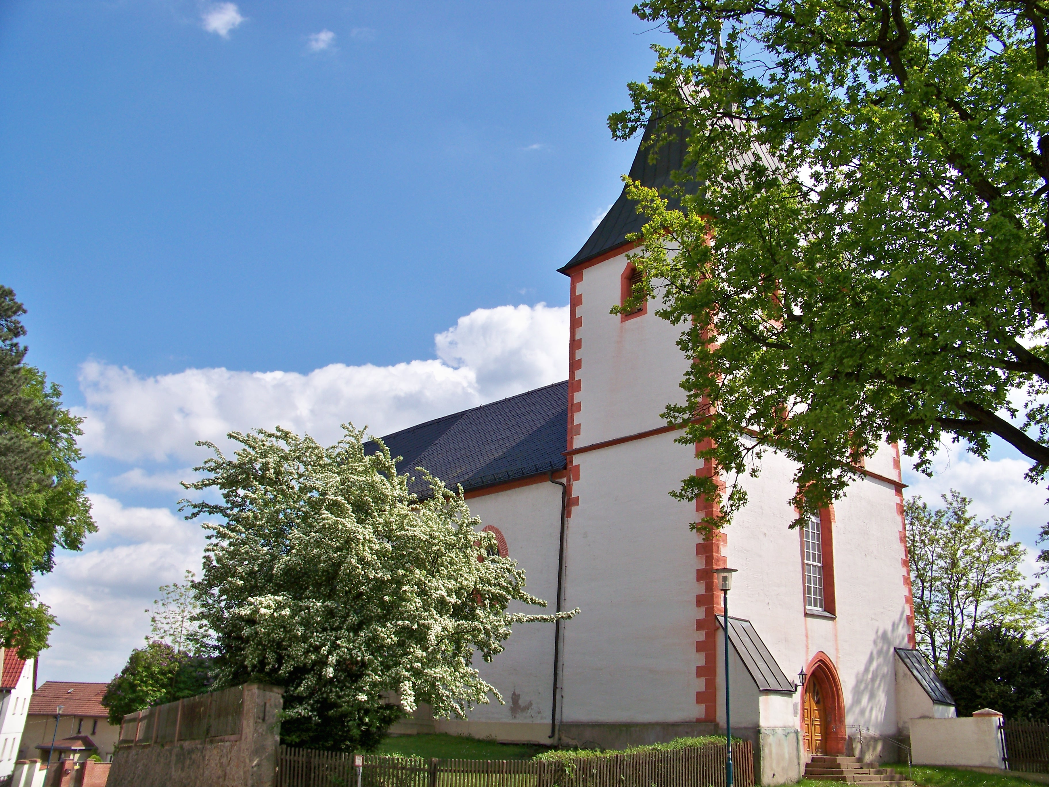 Church in Eula/Saxony